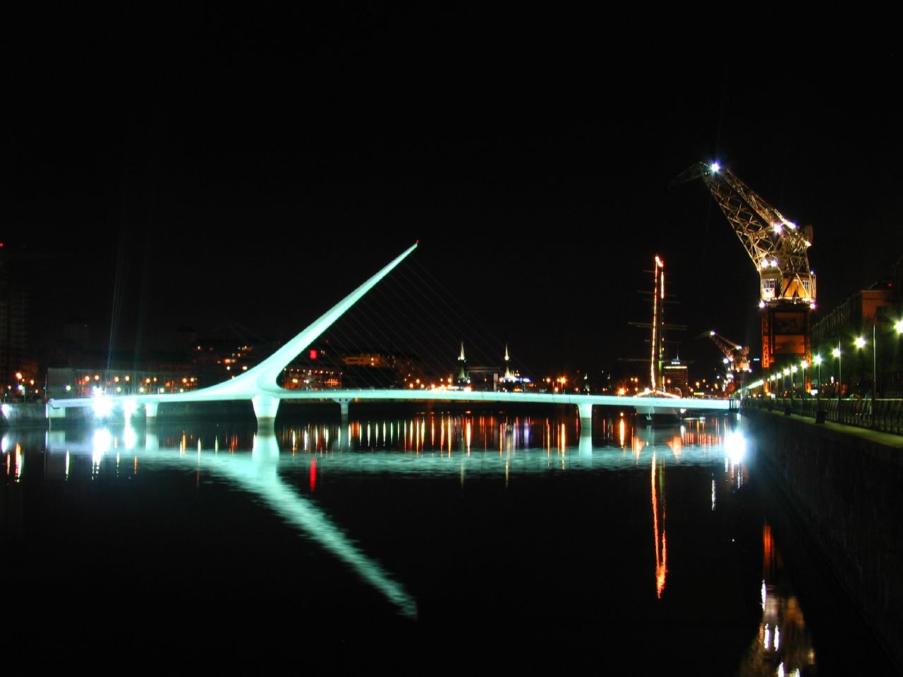 Puente de la Mujer, Buenos Aires, Argentina.